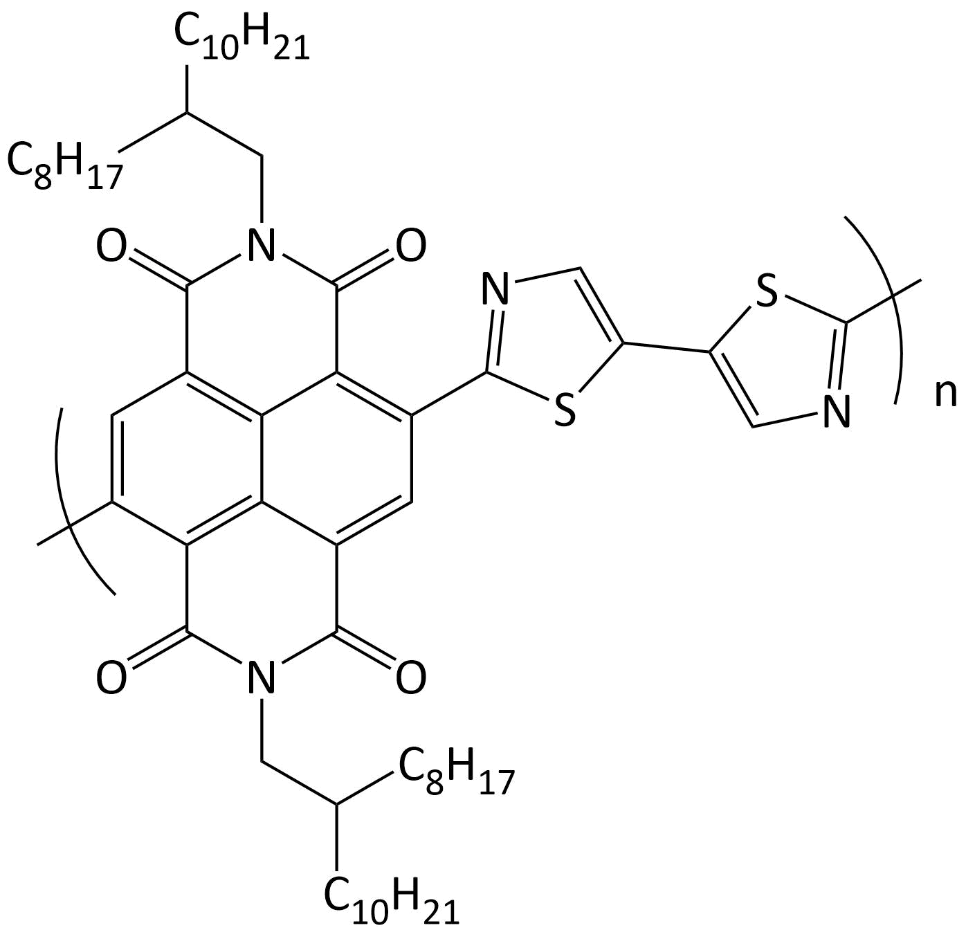 Chemical structure of P(NDI2OD-2Tz) polymer